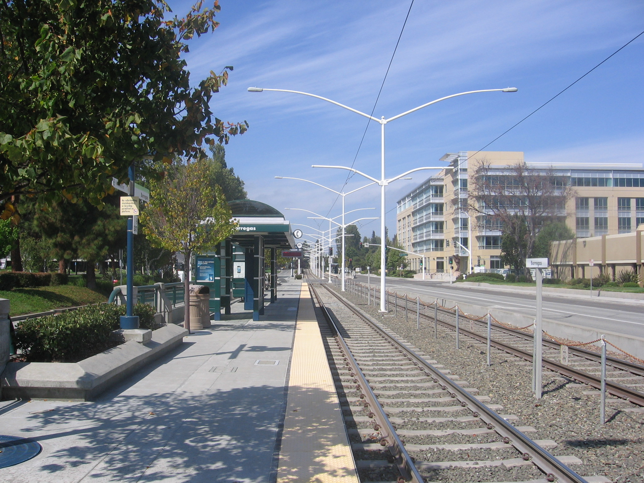 The Borregas (VTA) light rail and bus station in Sunnyvale, California, USA.